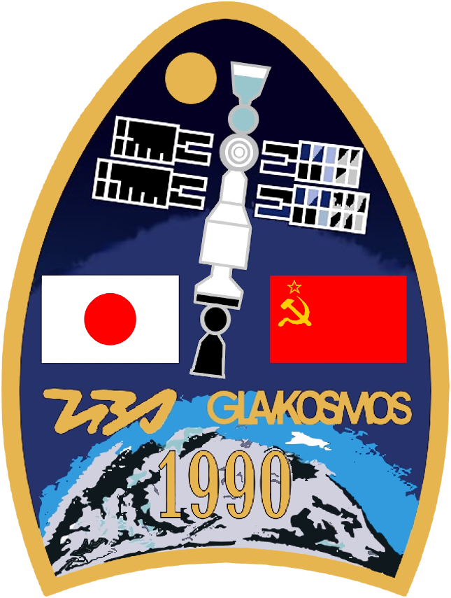 The official crew patch for the Soviet Soyuz TM-11 mission, which delivered the EO-8 and Kosmoreporter crews to the space station Mir.